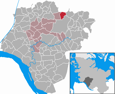 This map shows the area of the municipality Silzen in the Kreis (district) Steinburg, Schleswig-Holstein, Germany.